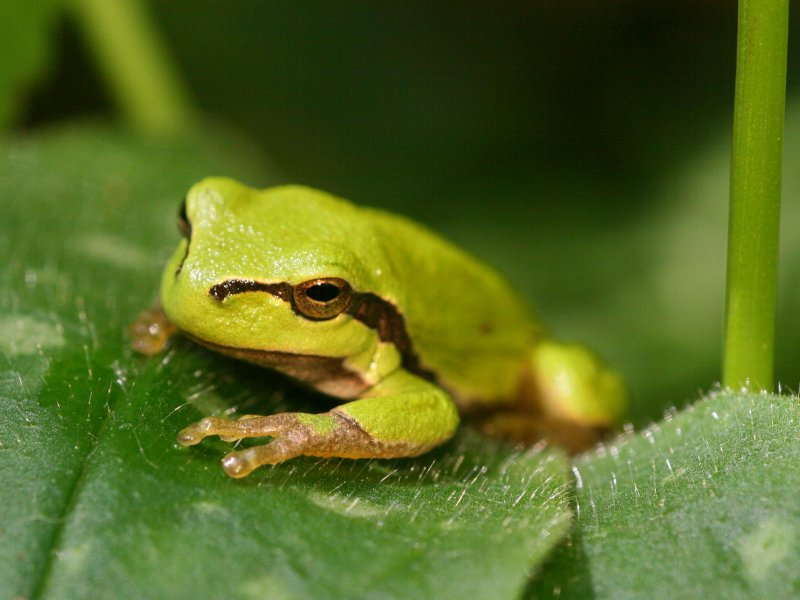 Laubfrosch (Hyla arborea)